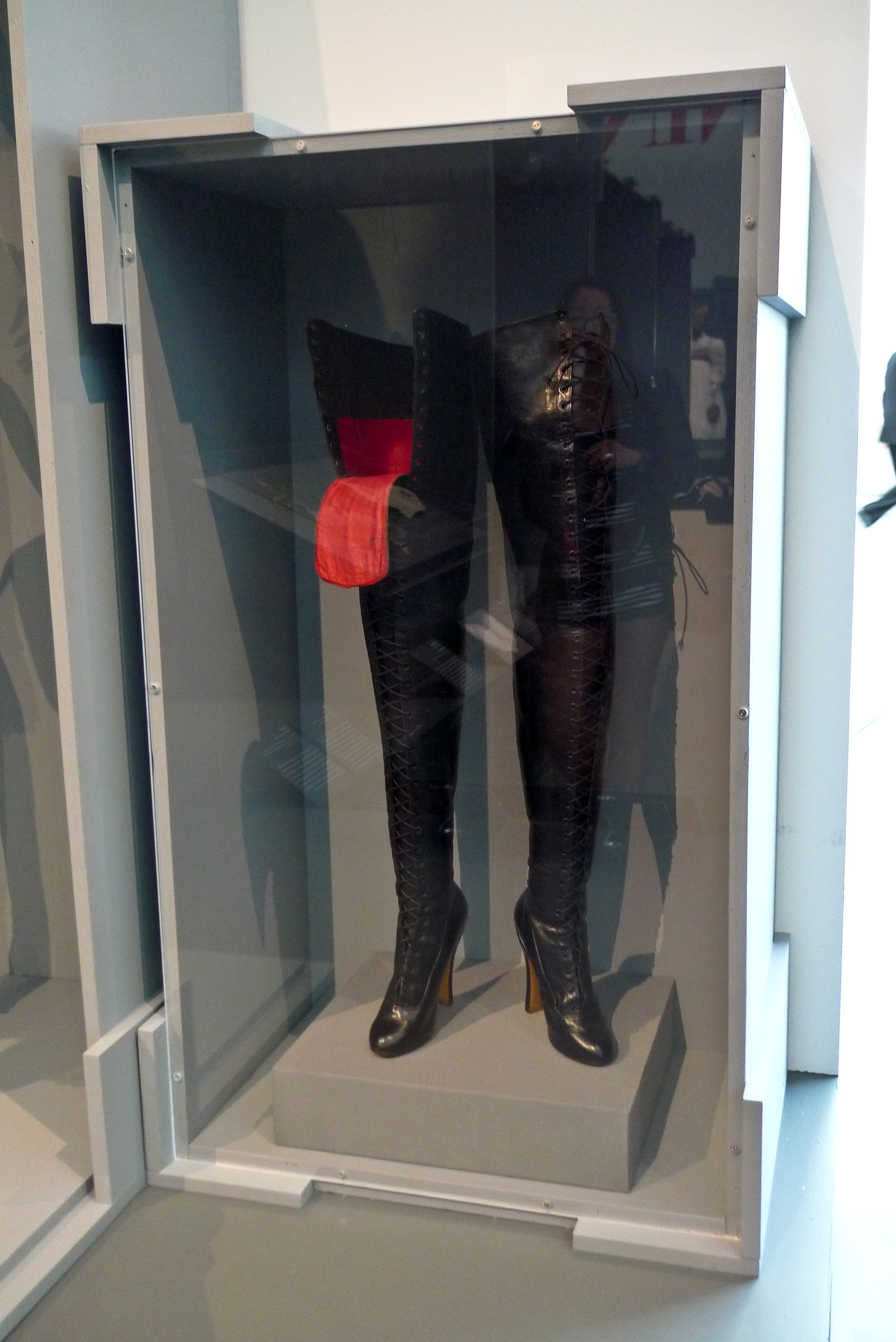 Pair of Fetish Boots, c. 1900 - Fashioning Fashion - LACMA From the exhibition "Fashioning Fashion: European Dress in Detail, 1700-1915" at the Los Angeles County Museum of Art. On view from October 2, 2010 - March 6, 2011.